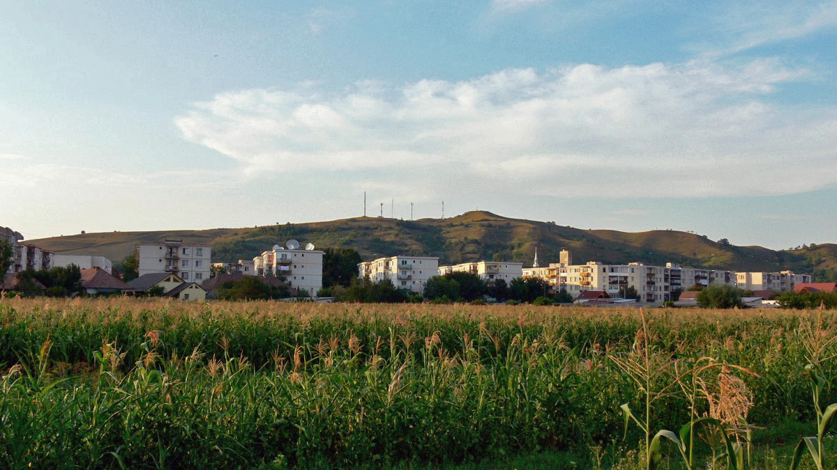 Kossuth negyed, Székelykeresztúr, Transsylvania (Romania)